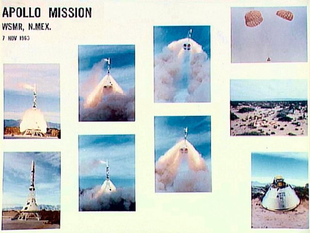 Apollo pad abort test - White Sands Missile Range, NM